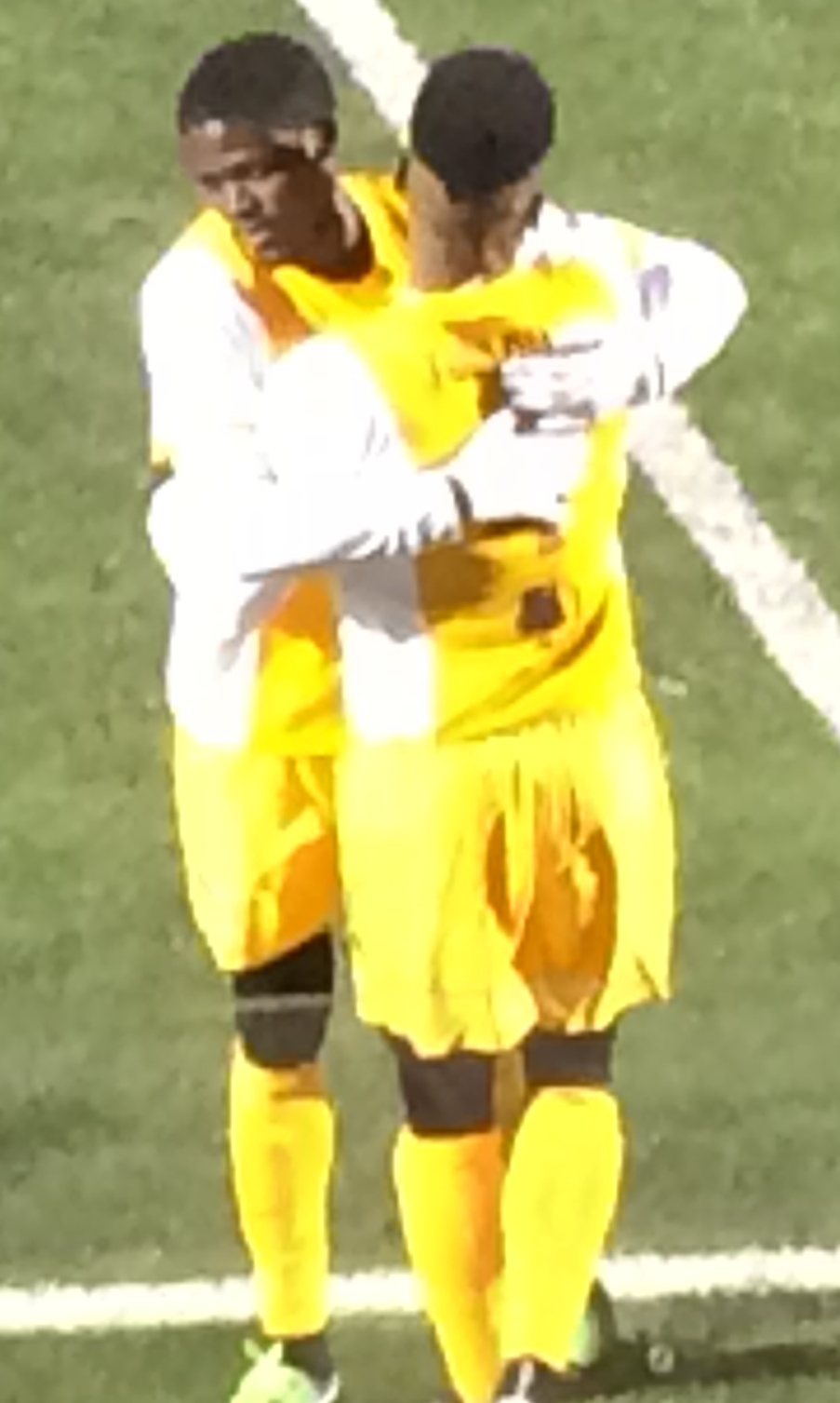 Lebo Moloto and Max Touloute with Riverhounds during 2015 season opener against Harrisburg City Islanders